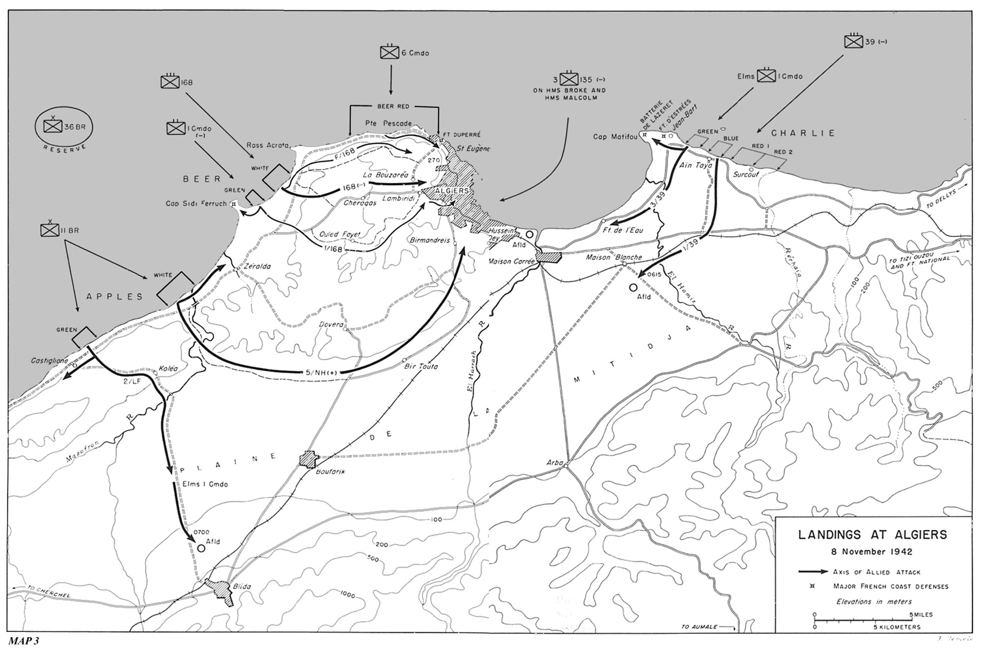 Map depicting the landings of Allied units around Algiers on 8 November 1942 as part of Operation Torch